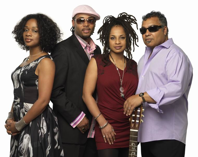 Incognito